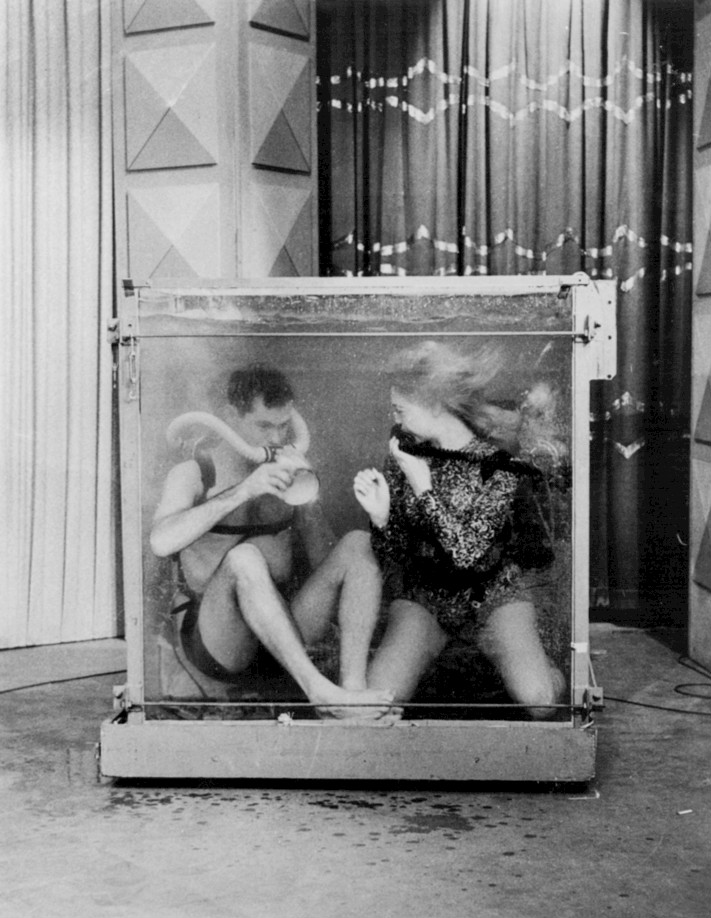 Photo of Johnny Carson and Jane Baldasare in a stunt for the game show Who Do You Trust?. Carson was the master of ceremonies for the show prior to hosting the Tonight Show. There are no copyright marks on the item, which can be seen at the link.